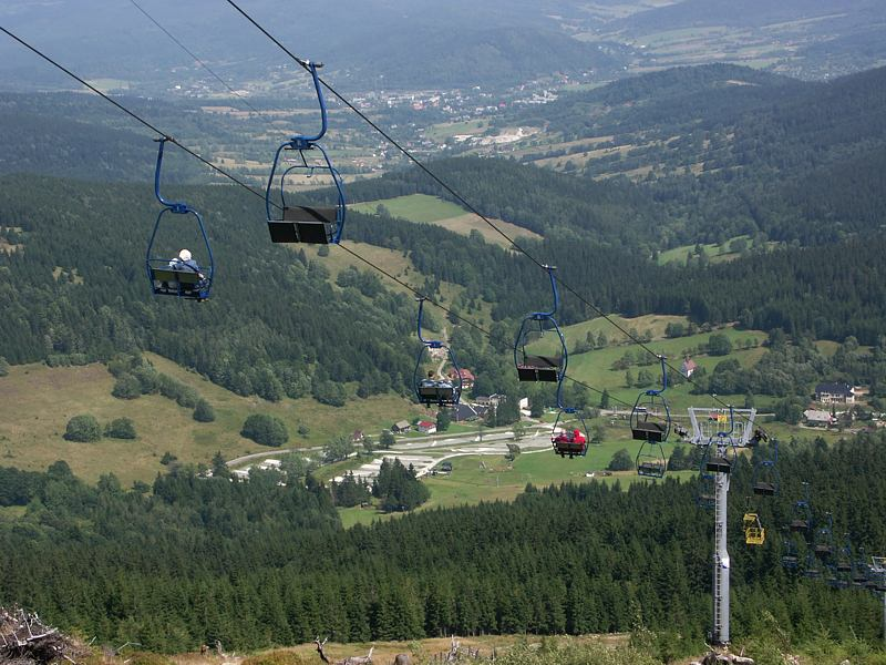 Cable car on Czarna Góra (Śnieżnik Mountains, Sudetes, Poland).